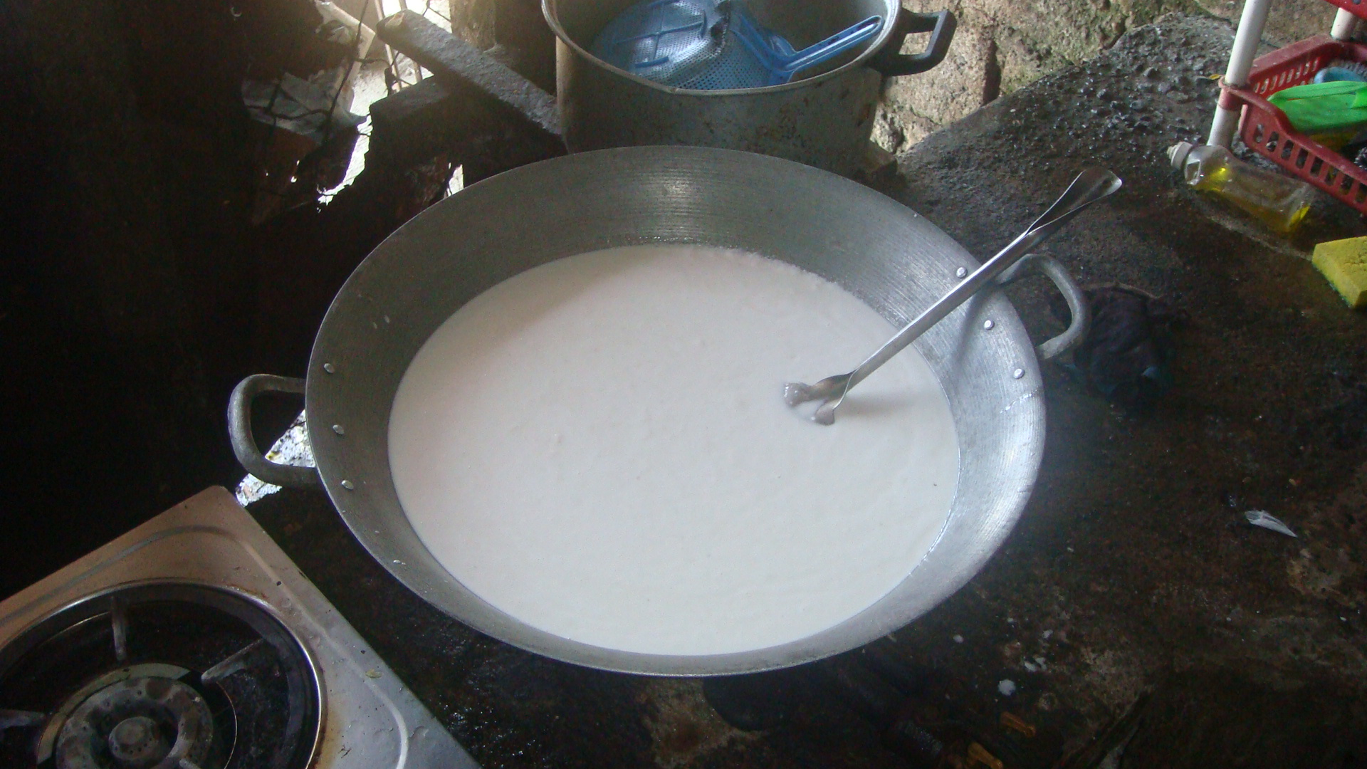 Good Friday 2012 coconut cream milk, Dagupan City, Pangasinan